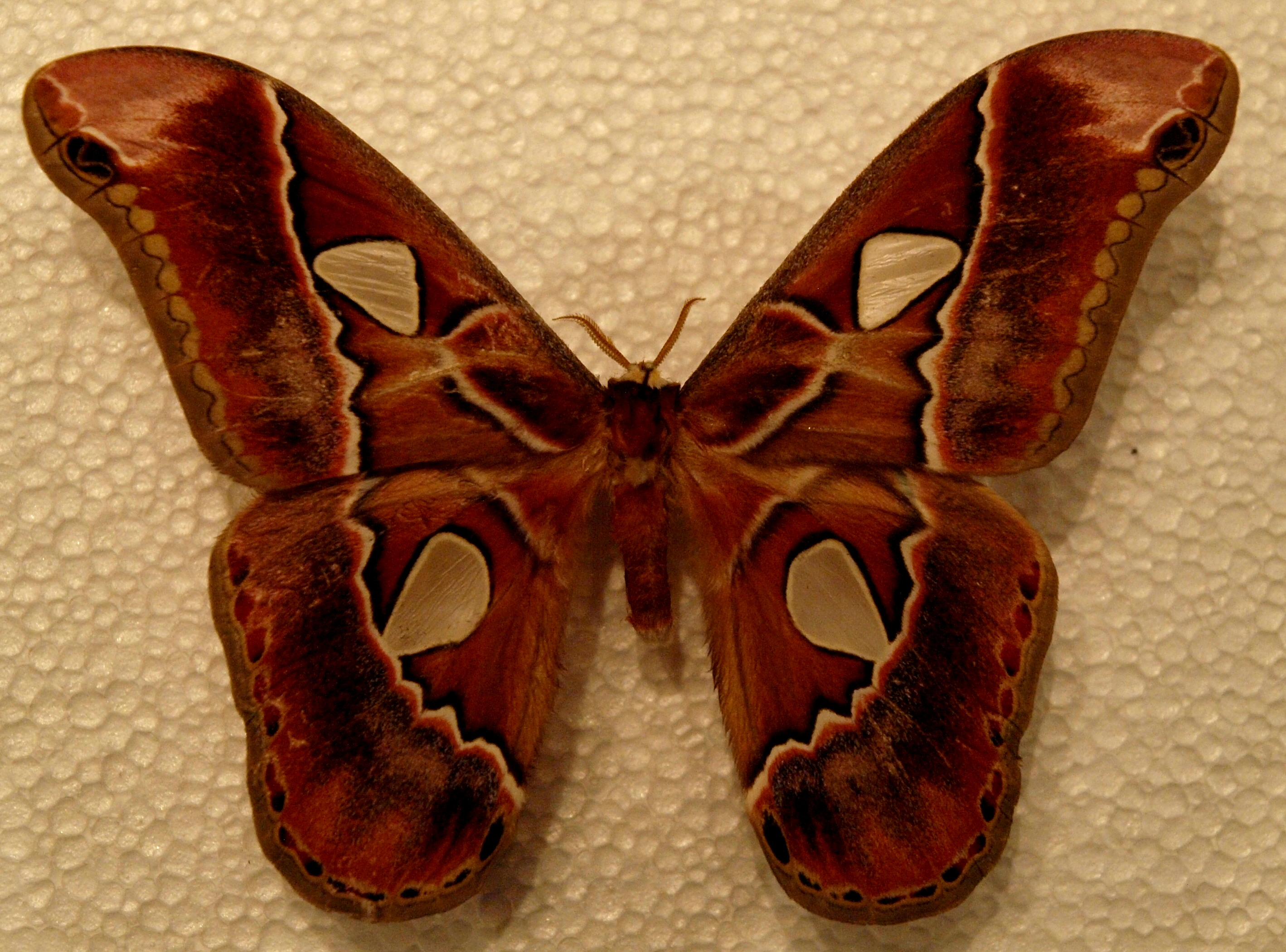 Rothschildia lebeau, male